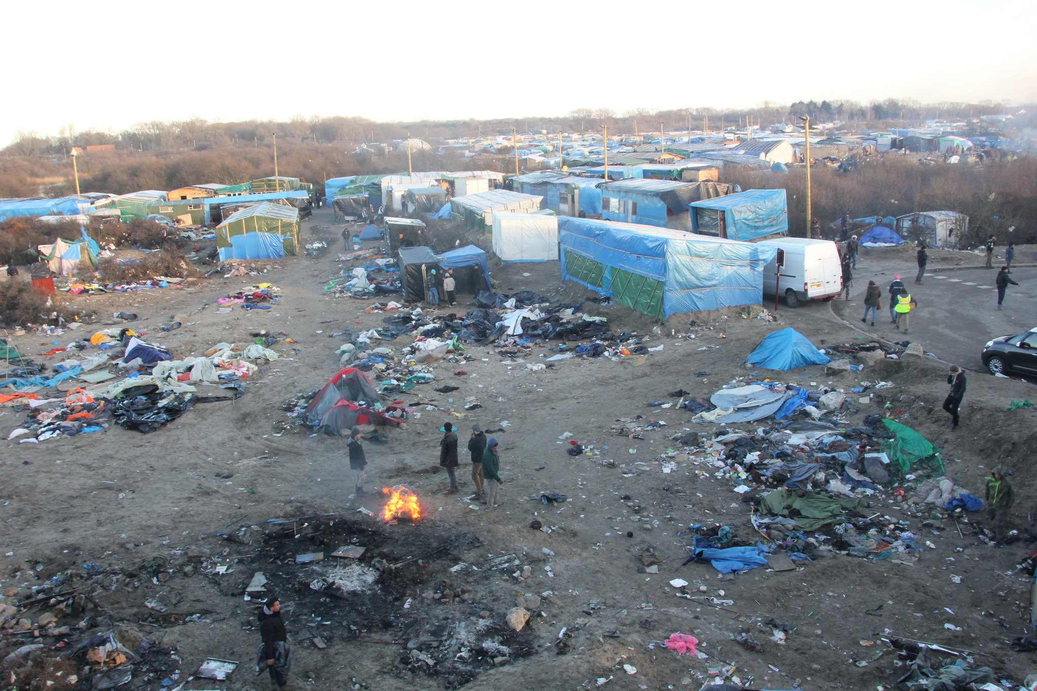 Bird's eye view of the Calais Jungle